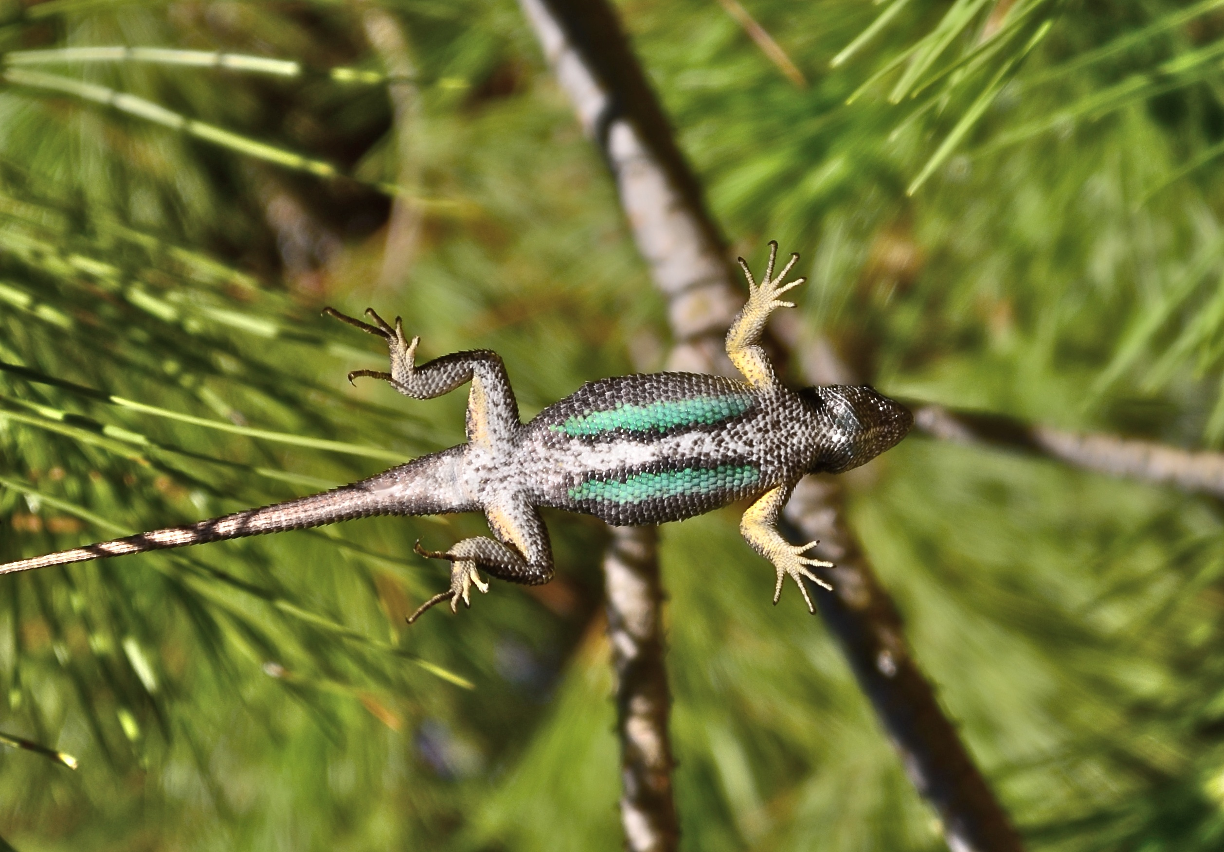 A Western fence lizard takes a flying leap above the photographer.